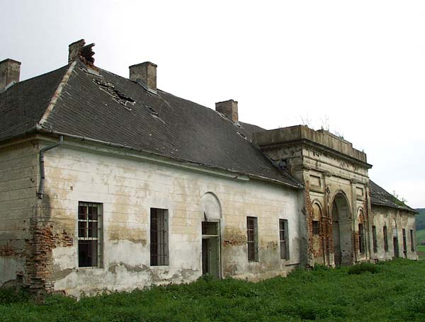 the remains of the Castle Tholdalagi in Koronka (Corunca, Mures County, Romania)